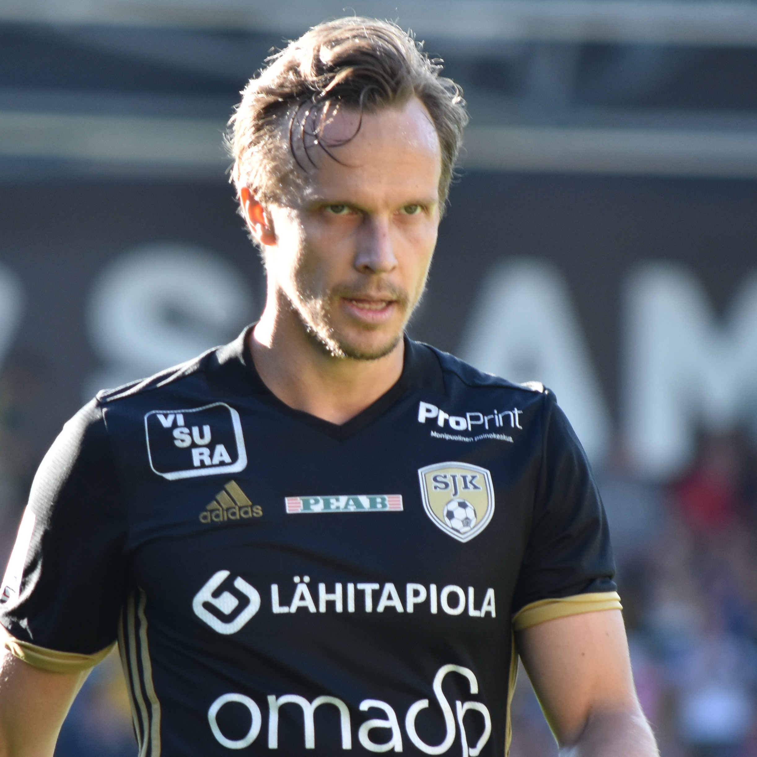 Association football player Jarkko Hurme (SJK)